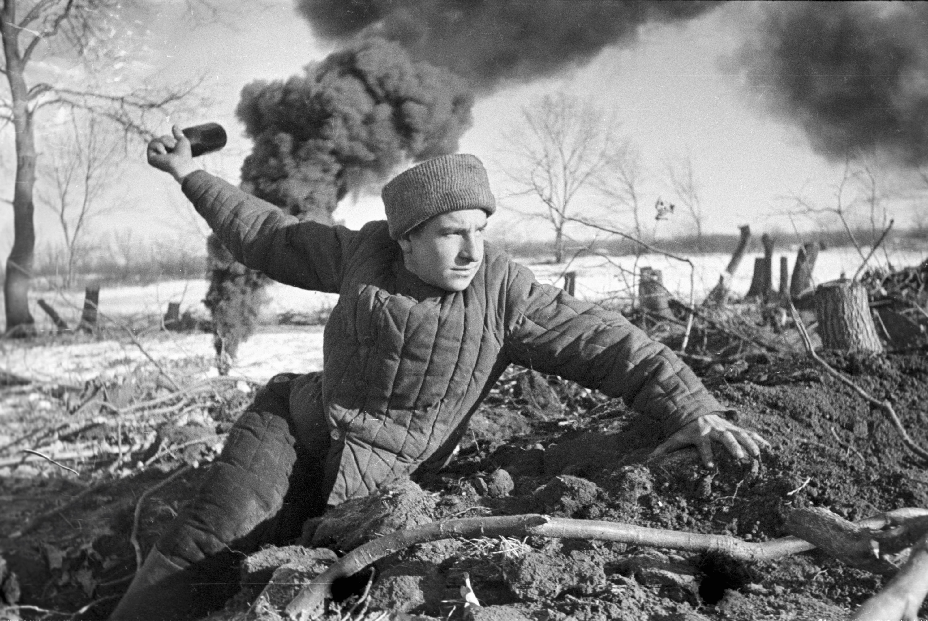 “Throwing grenades”. A soldier prepares to throw a grenade. Russia, Stalingrad